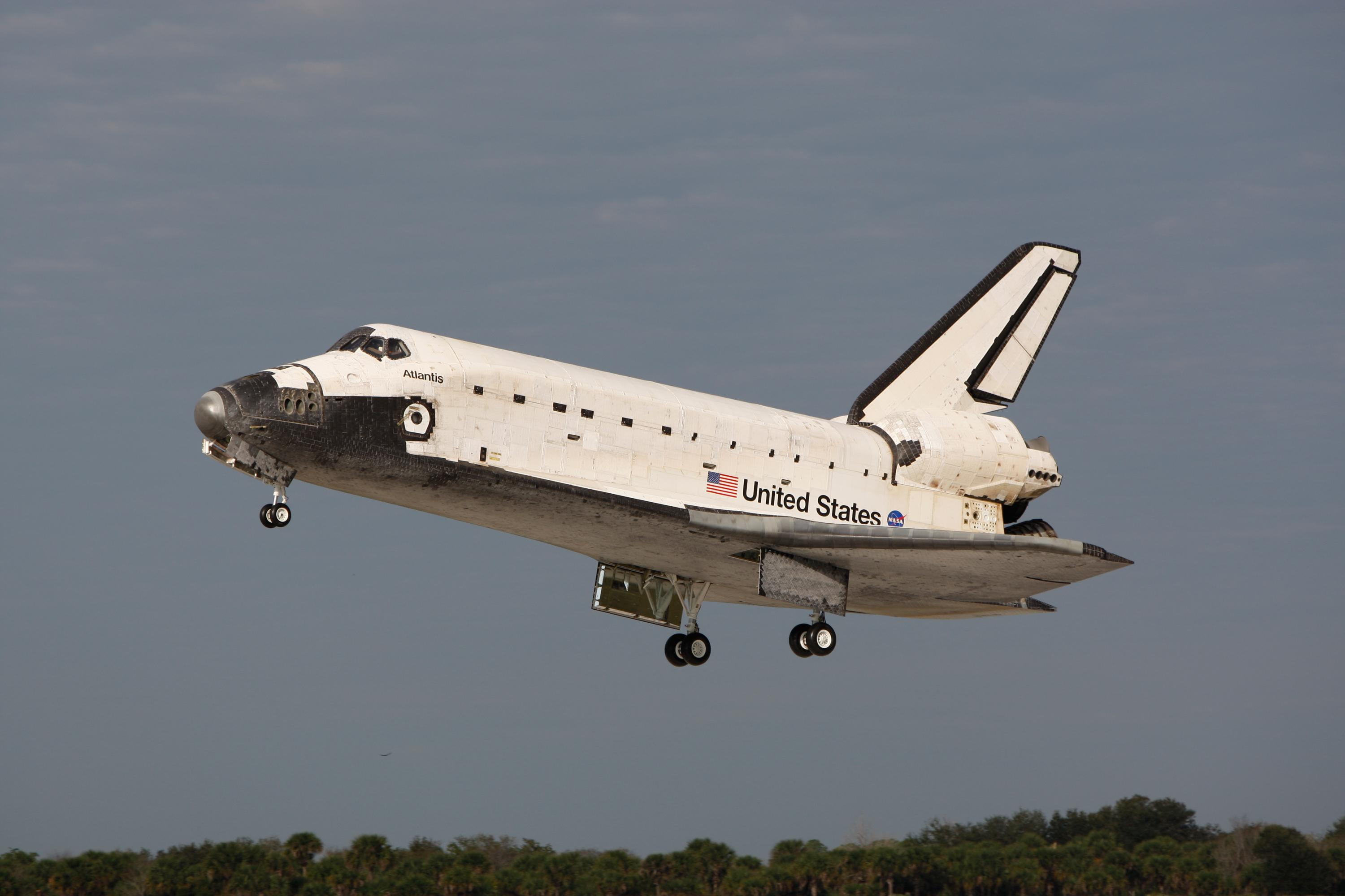 With wheels down, space shuttle Atlantis approaches a landing on Runway 15 of the Shuttle Landing Facility at NASA's Kennedy Space Center after a nearly 5.3 million mile round trip to the International Space Station. The shuttle landed on orbit 202 to complete the 13-day STS-122 mission. Main gear touchdown was 9:07:10 a.m. Nose gear touchdown was 9:07:20 a.m. Wheel stop was at 9:08:08 a.m. Mission elapsed time was 12 days, 18 hours, 21 minutes and 44 seconds. During the mission, Atlantis' crew installed the new Columbus laboratory, leaving a larger space station and one with increased science capabilities. The Columbus Research Module adds nearly 1,000 cubic feet of habitable volume and affords room for 10 experiment racks, each an independent science lab.